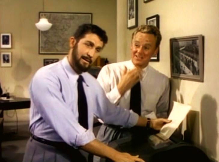 Peter Leeds (left) & Van Johnson in The Last Time I Saw Paris - cropped screenshot